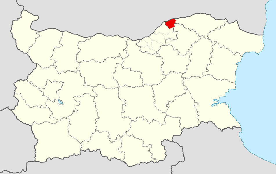 Location map of Slivo Pole Municipality within Bulgaria and Ruse Province. Equirectangular projection, N/S stretching 130 %. Geographic limits of the map: N: 44.4° N S: 41.1° N W: 22.1° E E: 28.9° E